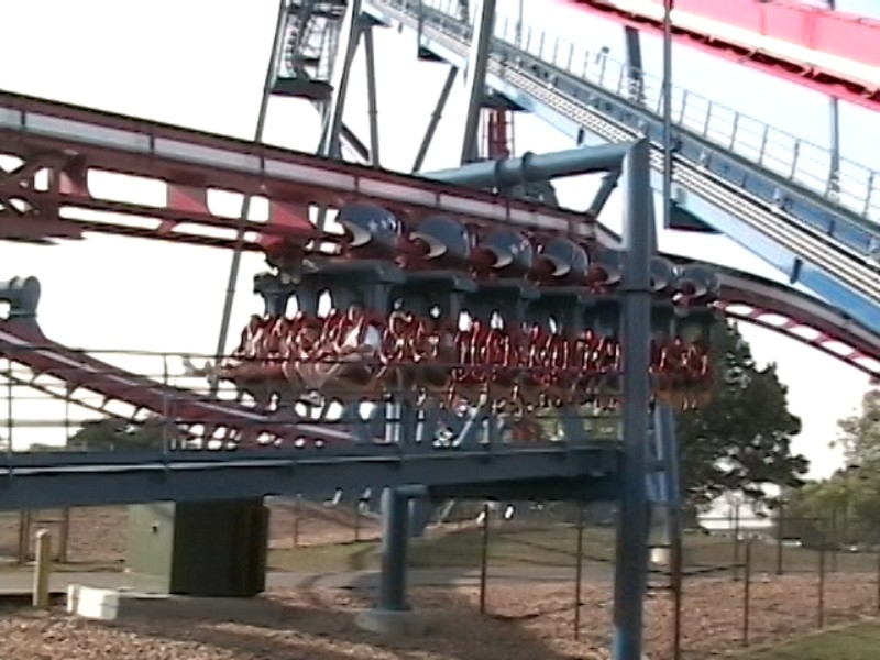 Patriot entering the brakes